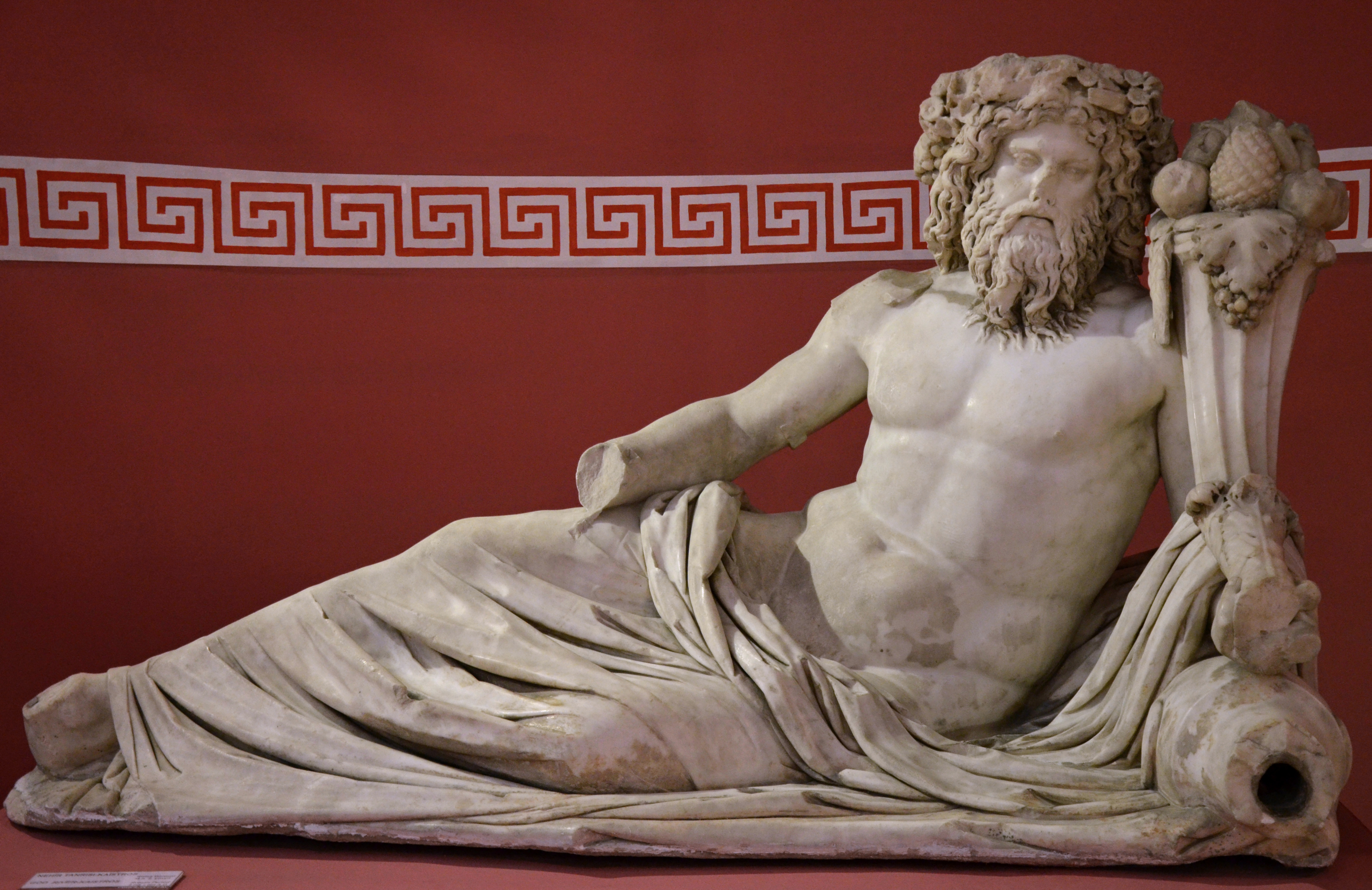 The River Kaystros had its headwaters on Mount Tmolos and flowed into the Aegean Sea near the town of Ephesos on the Lydian border with Karia (Caria). The next major rivers were the Meles and Hermos to the north, and Maiandros (Meander) to the south. Pausanias, Description of Greece 7. 2. 8 (trans. Jones) (Greek travelogue C2nd A.D.) : "Ephesos (Ephesus), who is thought to have been a son of the river Kaystros (Cayster), and from Ephesos the city received its name."